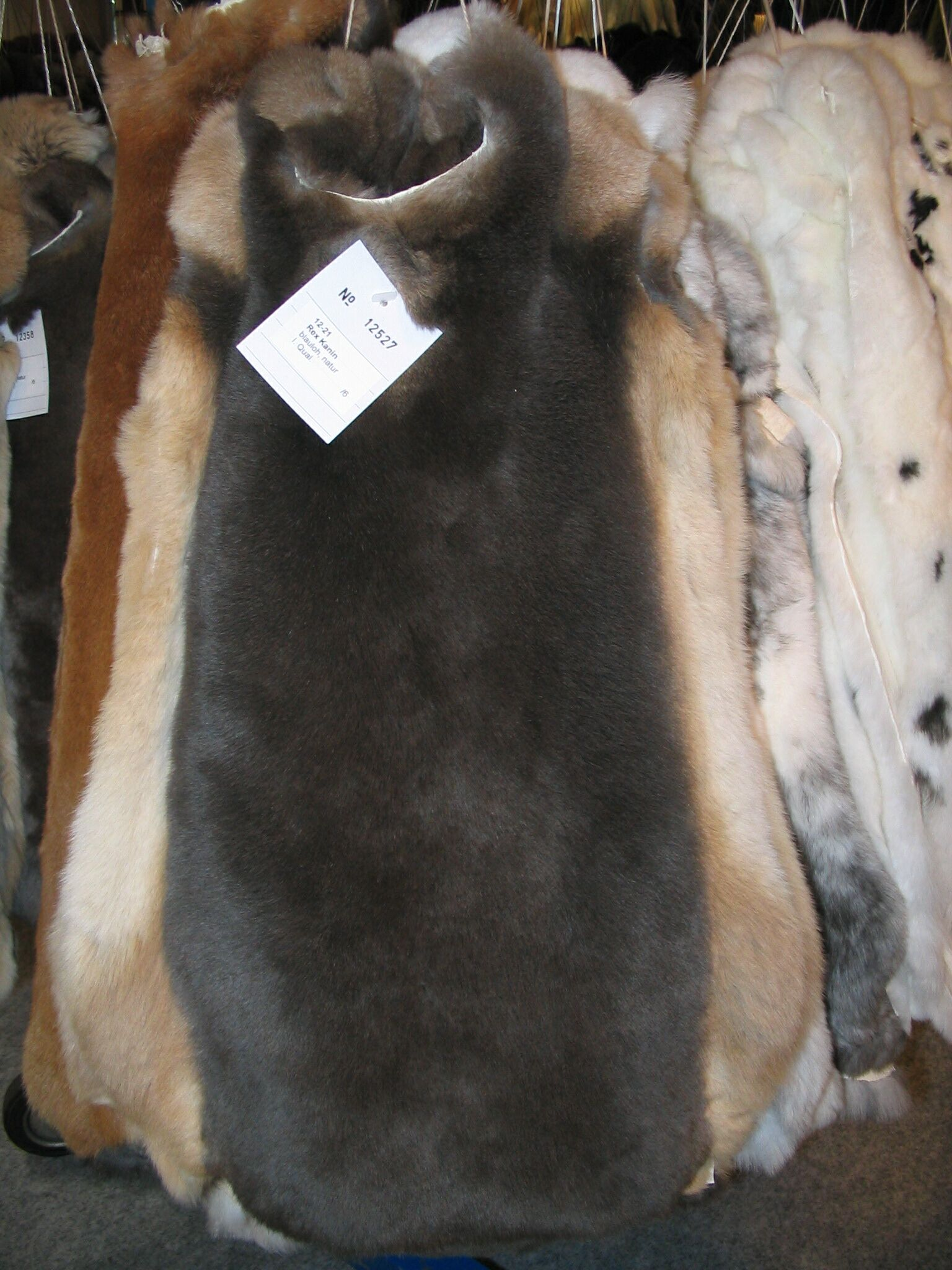 Domestic rabbit fur skins